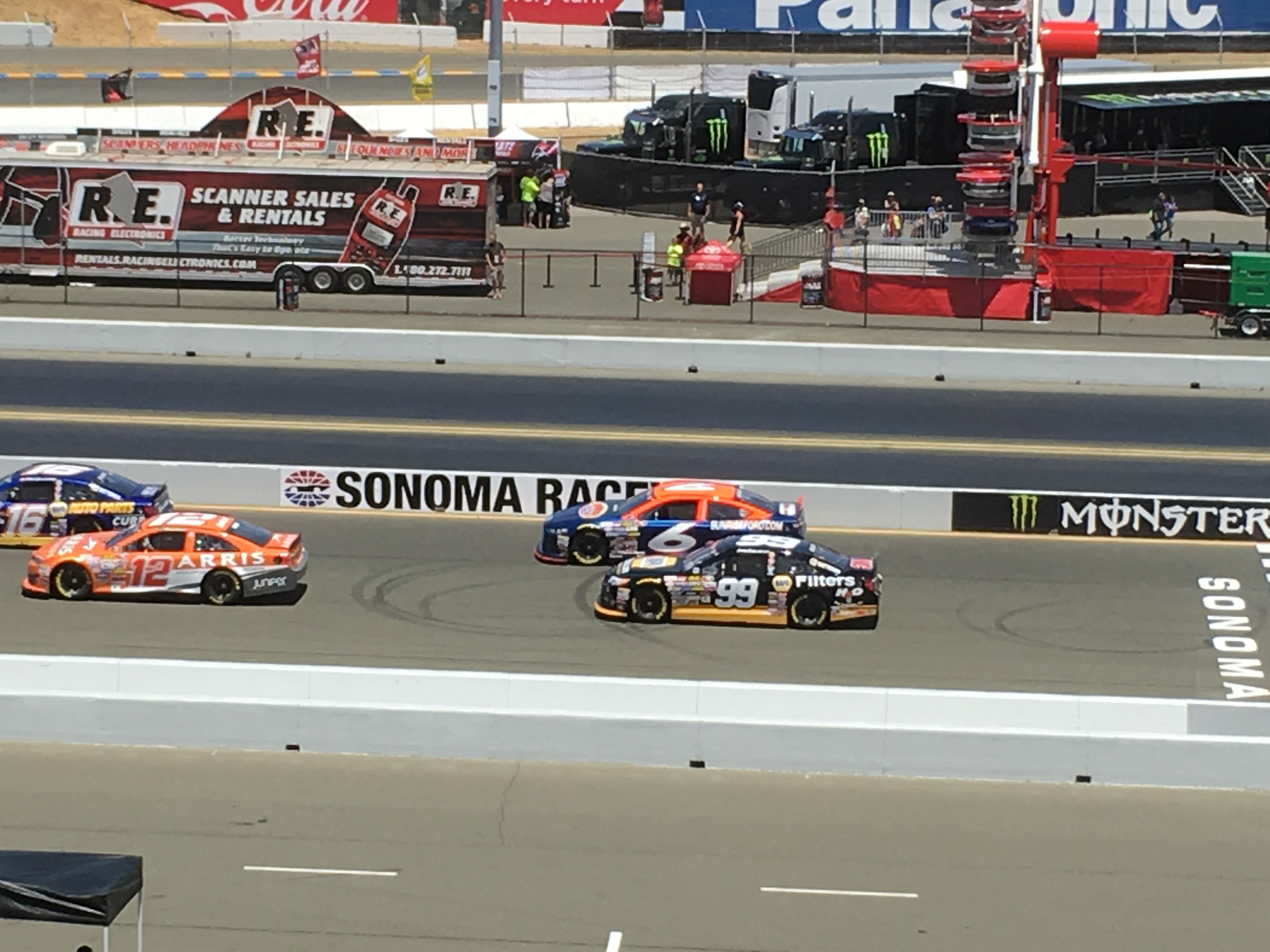 Julia Landauer (No. 6) and Chris Eggleston (No. 99) at the 2017 Carneros 200.